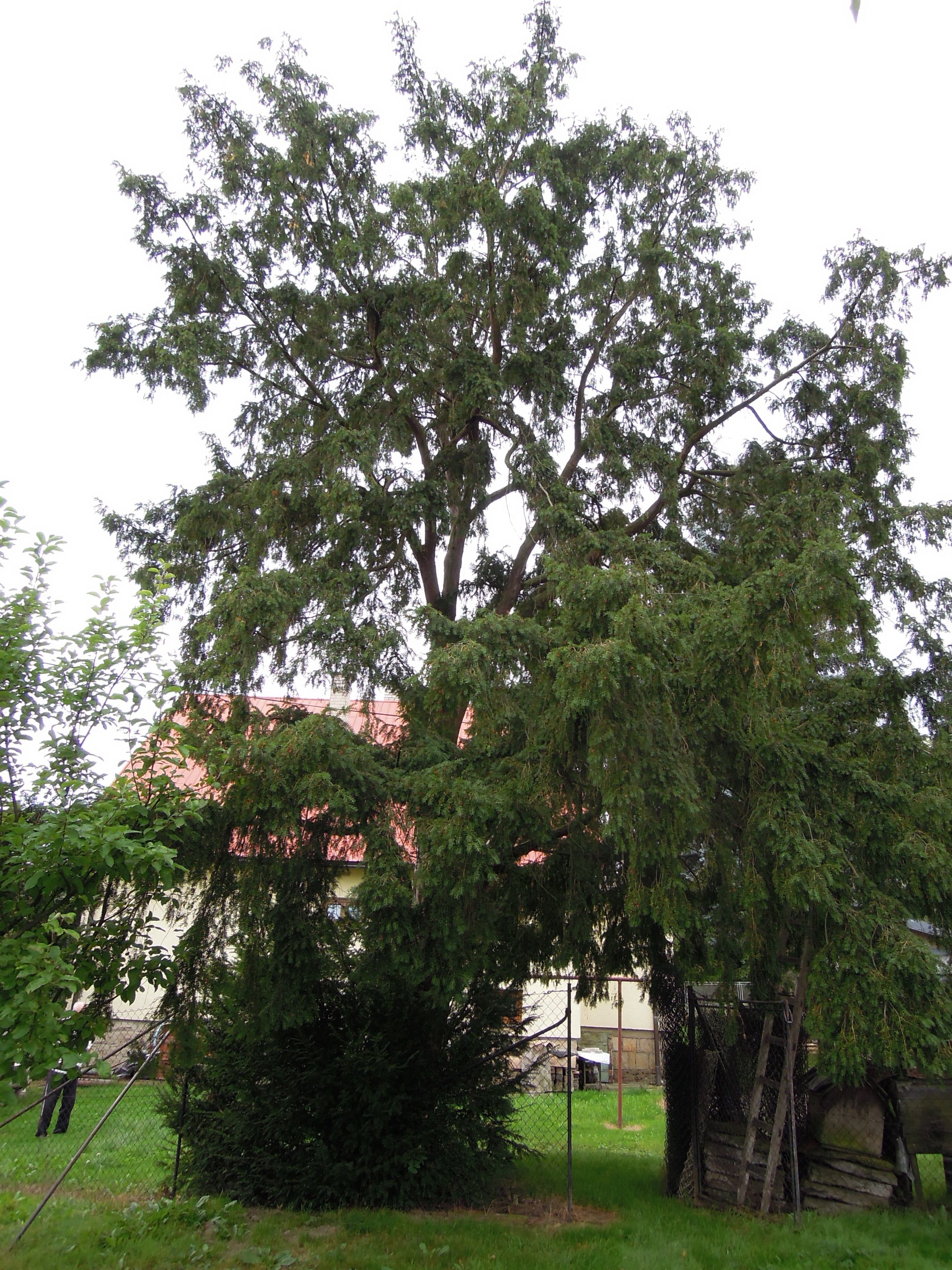 Taxus baccata, famous tree in Hrachovec, Vsetín District, Zlín Region, Czech Republic